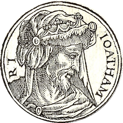 Joatham rex